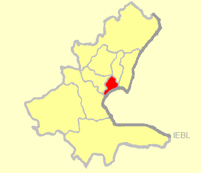 Location of Novo Sarajevo municipality in Sarajevo Canton.